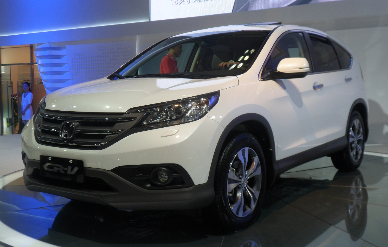 Honda CR-V RM photographed at the 2012 Chongqing Auto Show, Chongqing, China.